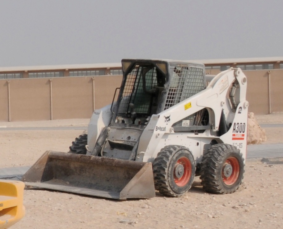 Bobcat A300